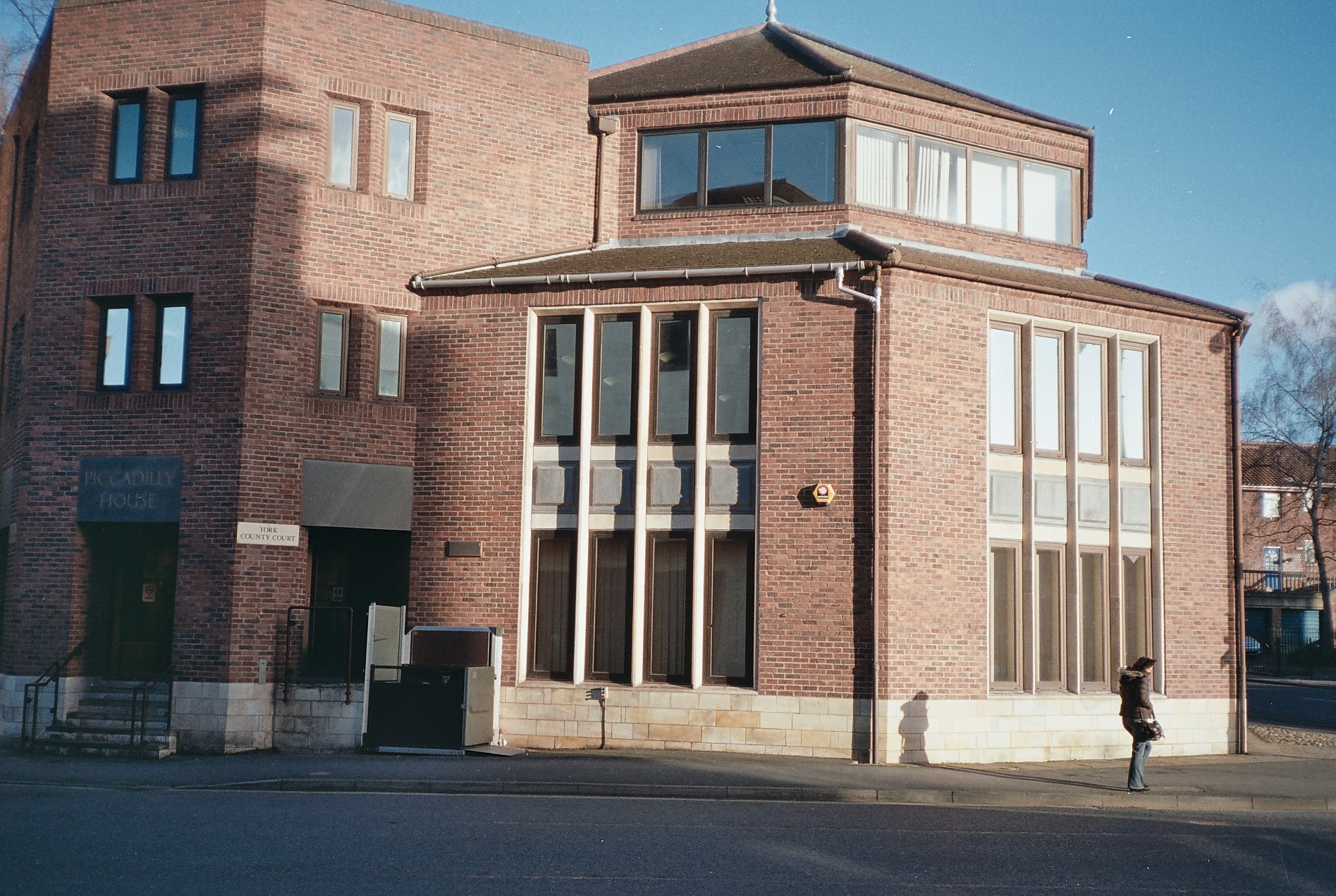 York County Court, Piccadilly